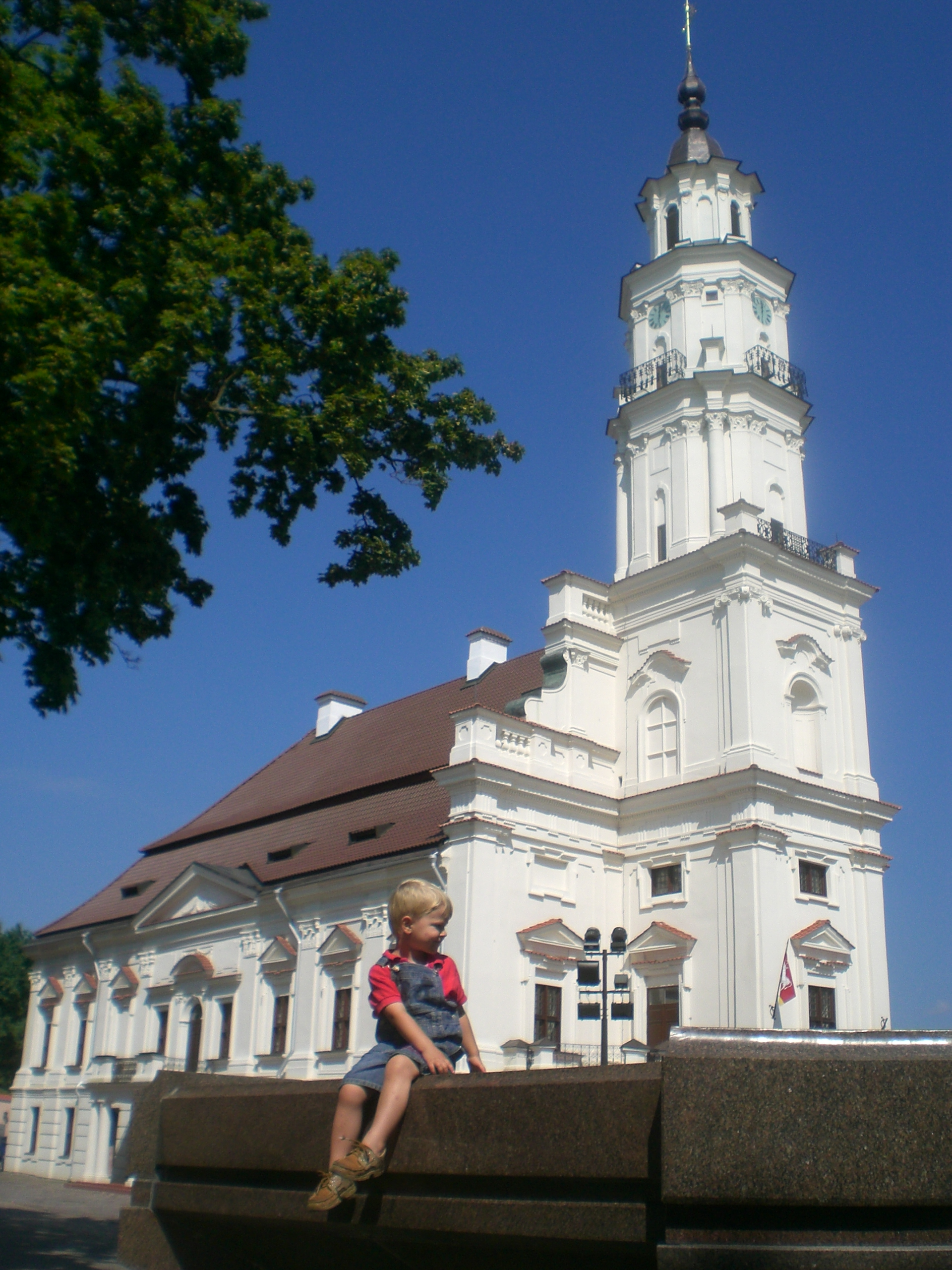 the town hall in Kaunas.